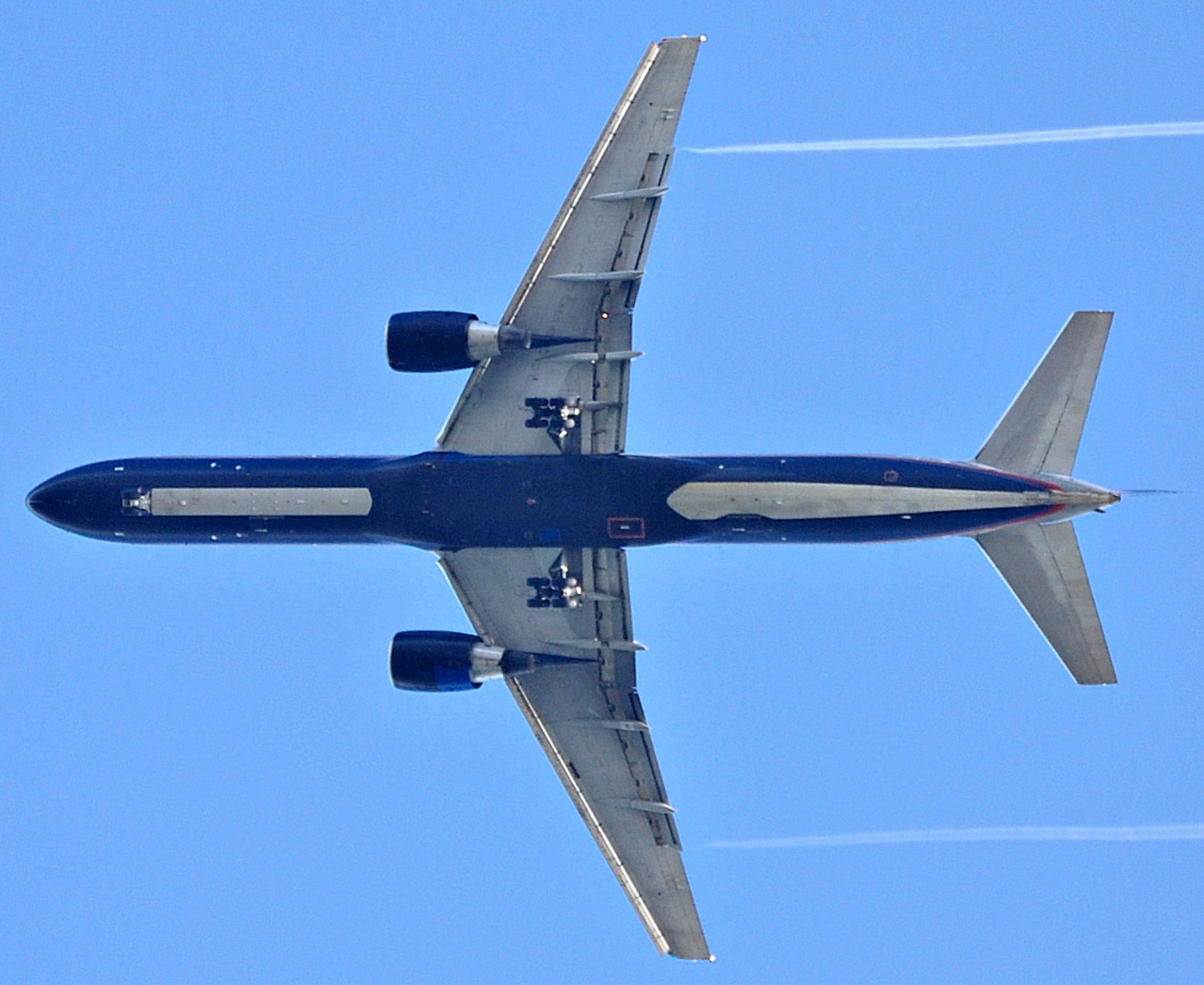 United Boeing 757 Cropped, sharpened and clarified, resized to near original pixel count.. Adjusted exposure, contrast, lightly sharpened and clarified. DSC_0347